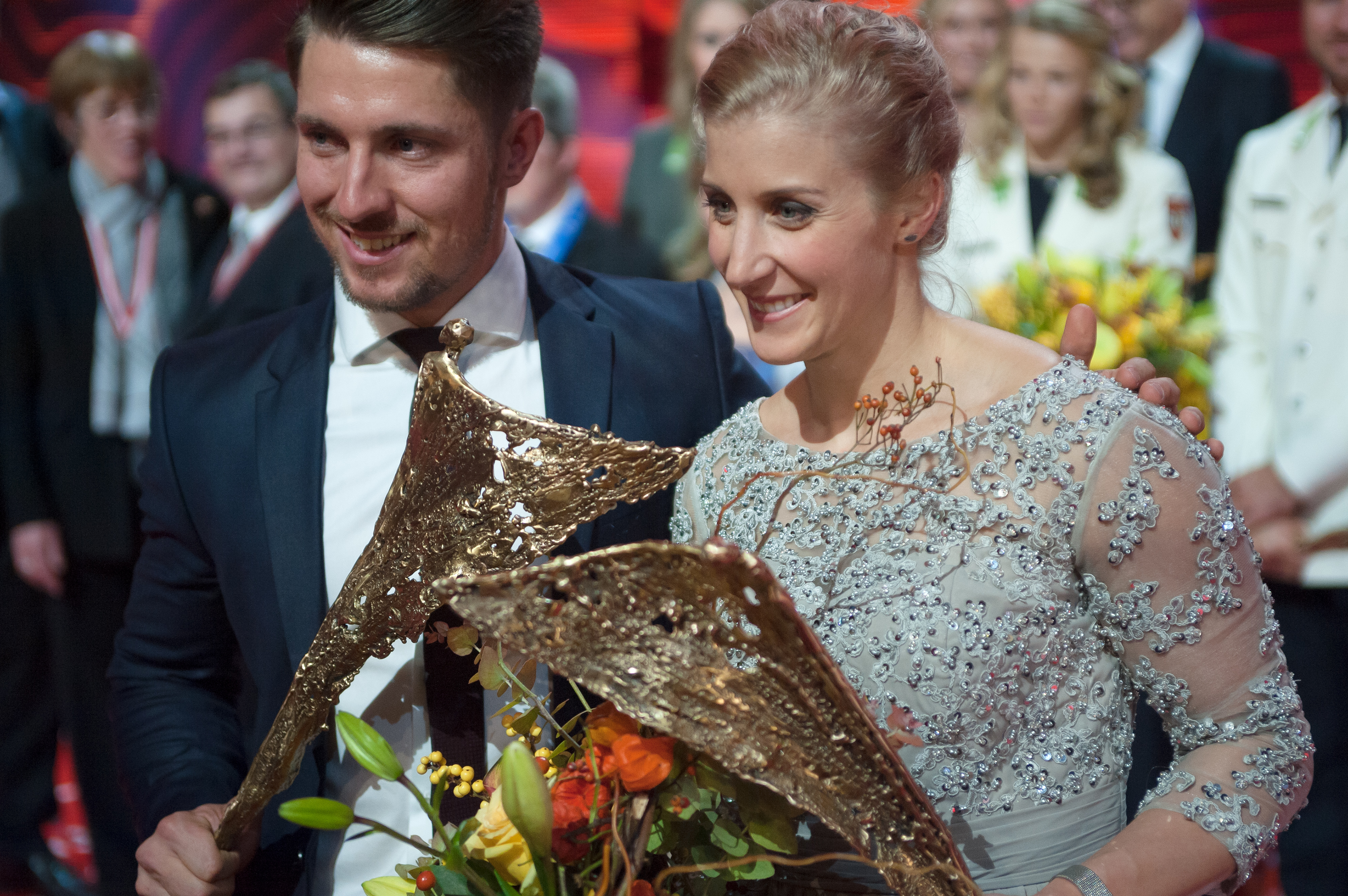 Eva-Maria Brem and Marcel Hirscher, the Austrian Sportspersonalities of the Year 2016 (Austria Center Vienna).